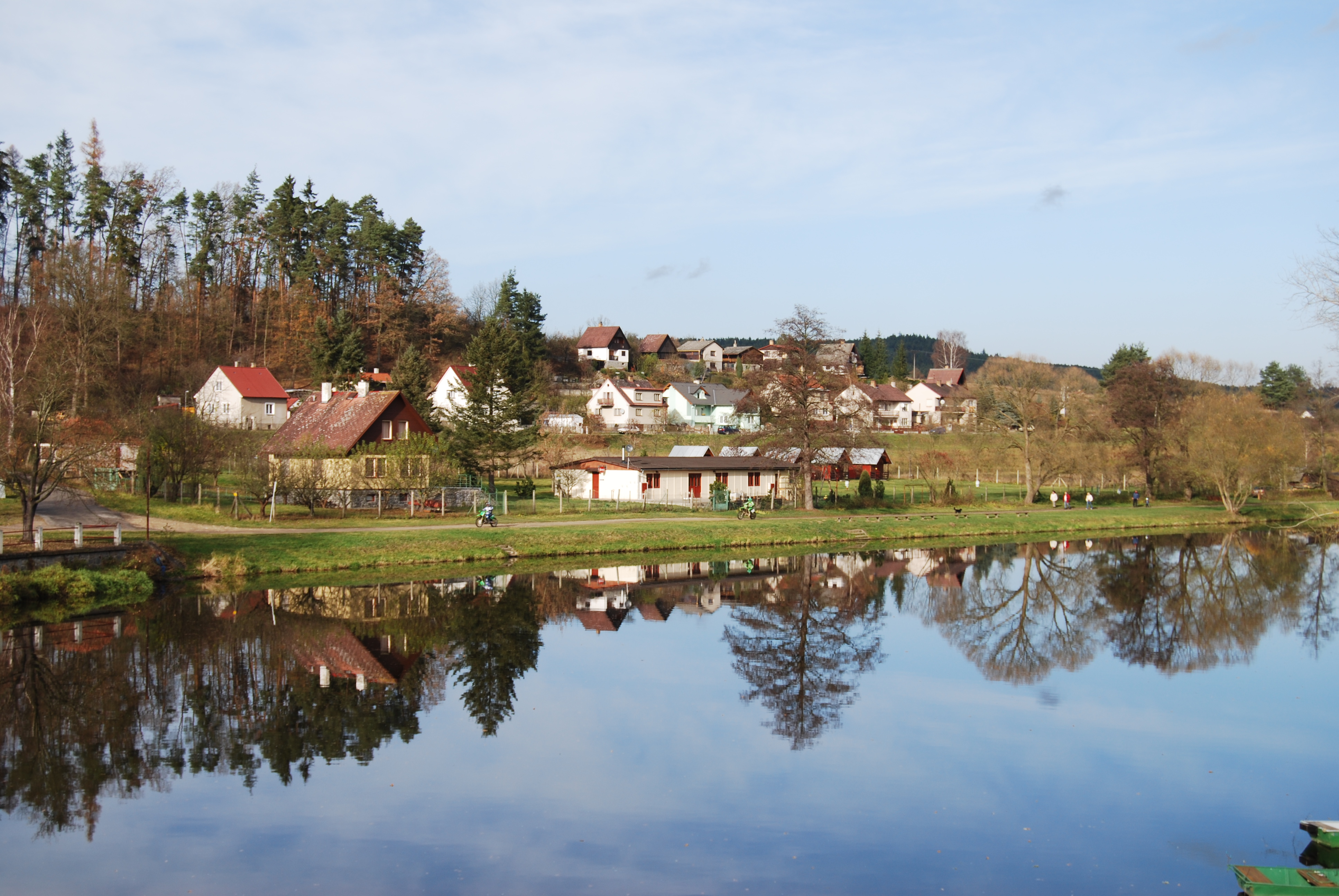 Koloděje nad Lužnicí village, part of Týn nad Vltavou town in České Budějovice District, Czech Republic.